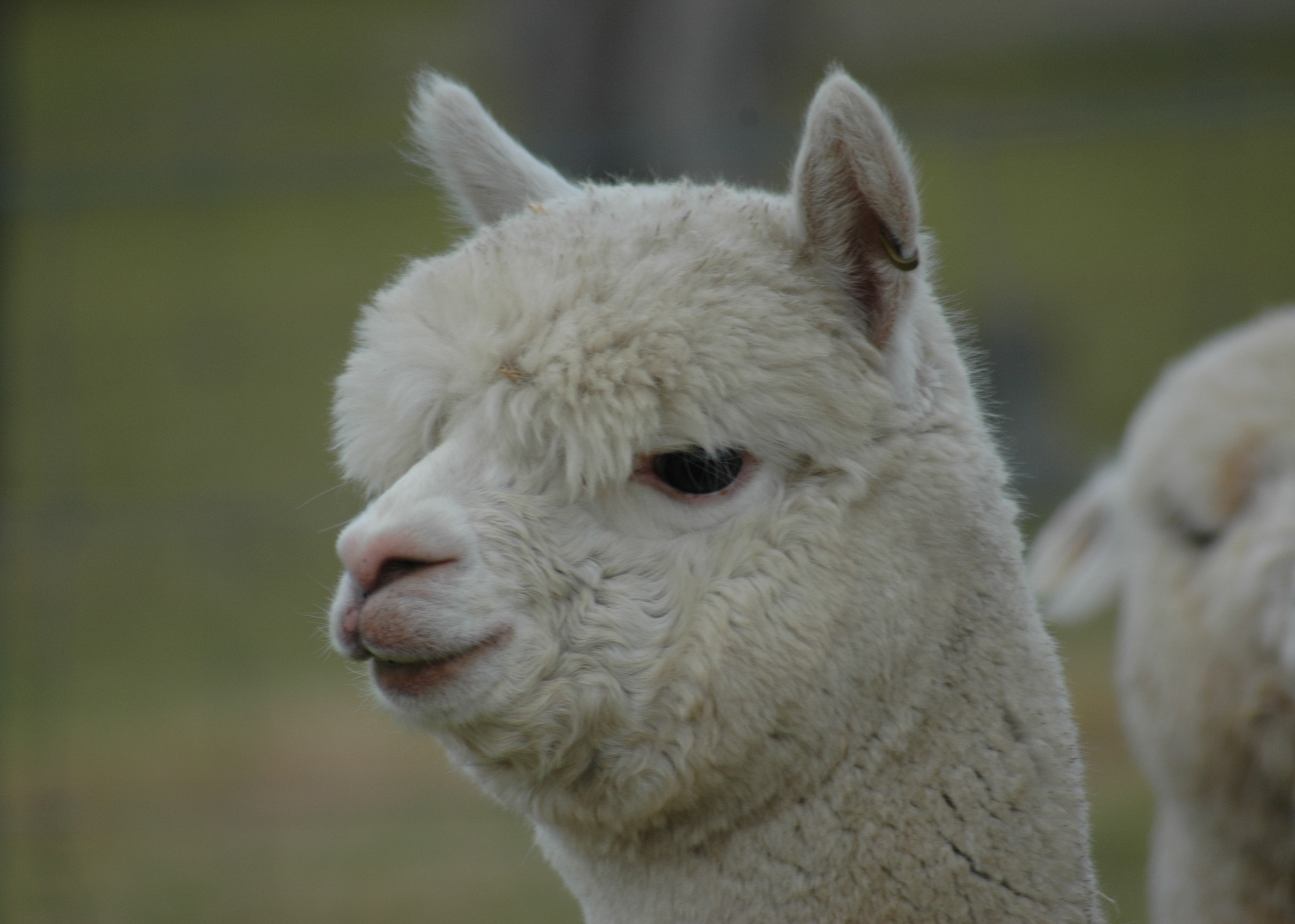 Ambersun Corazon, one of the best alpaca sires owned by Knapper Alpaca Norway